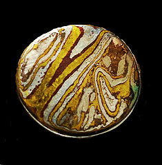 Top of a mokume-gane ring, by Mauro Cateb, Brazilian jeweler and silversmithing.